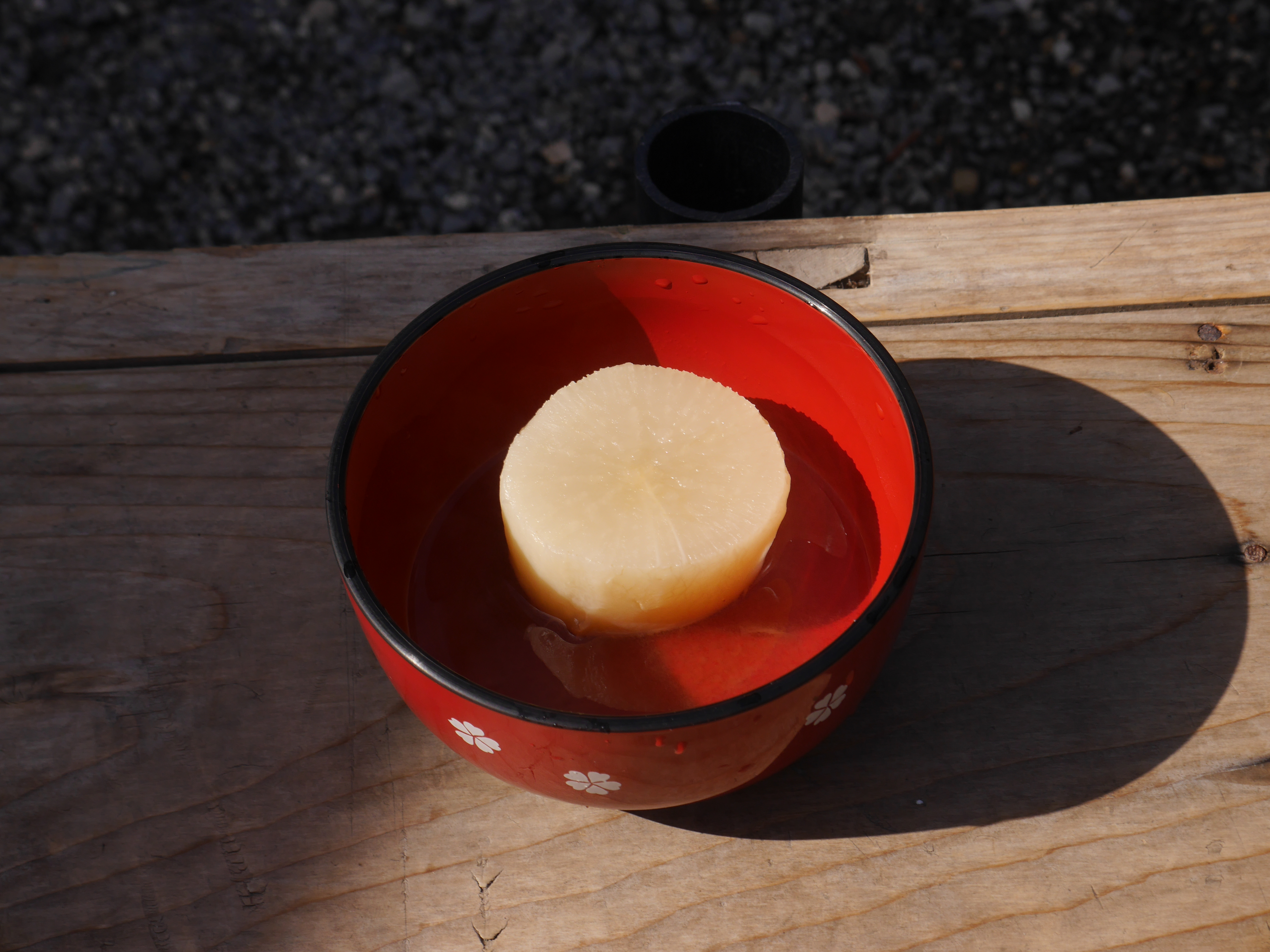 Daikon daki, Cooked daikon being offered at Daikon offering festival at Kyoto Sanzen'in